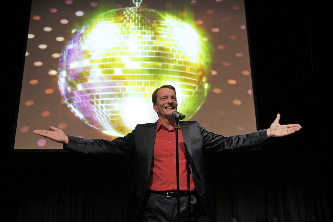 German author Bastian Sick live on stage at the "Frankfurter Hof" in Mainz, 4th of feb. 2012